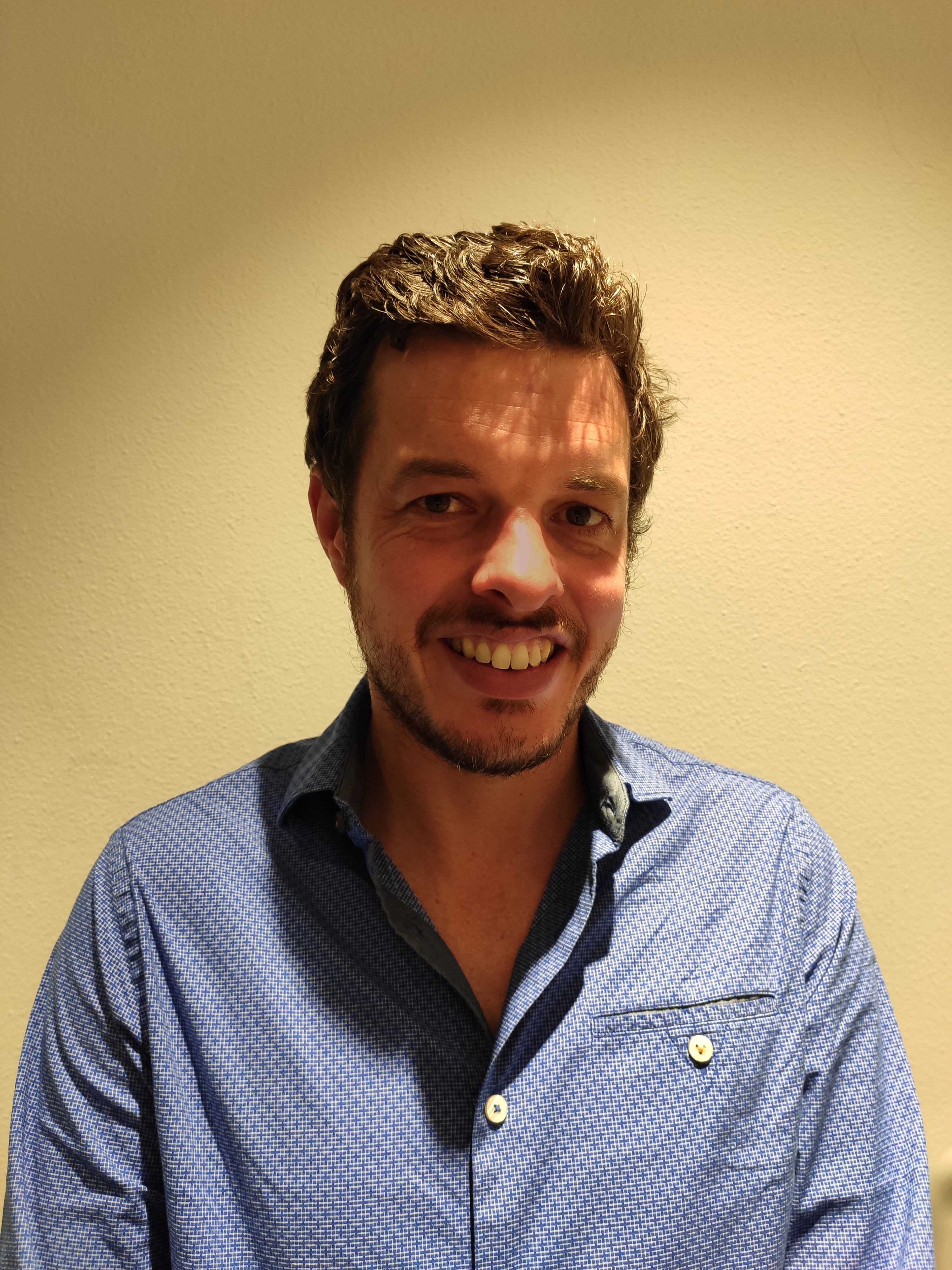 Filemon Wesselink in the central library of The Hague